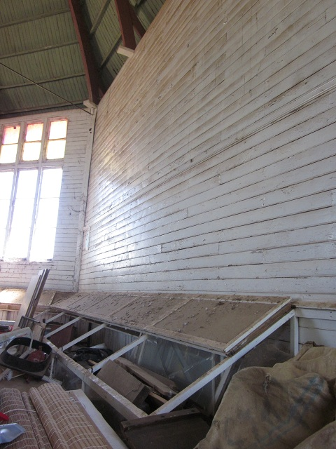 Narrandera Showground Industrial Hall. Interior, showing glass display cabinet fixed to wall.